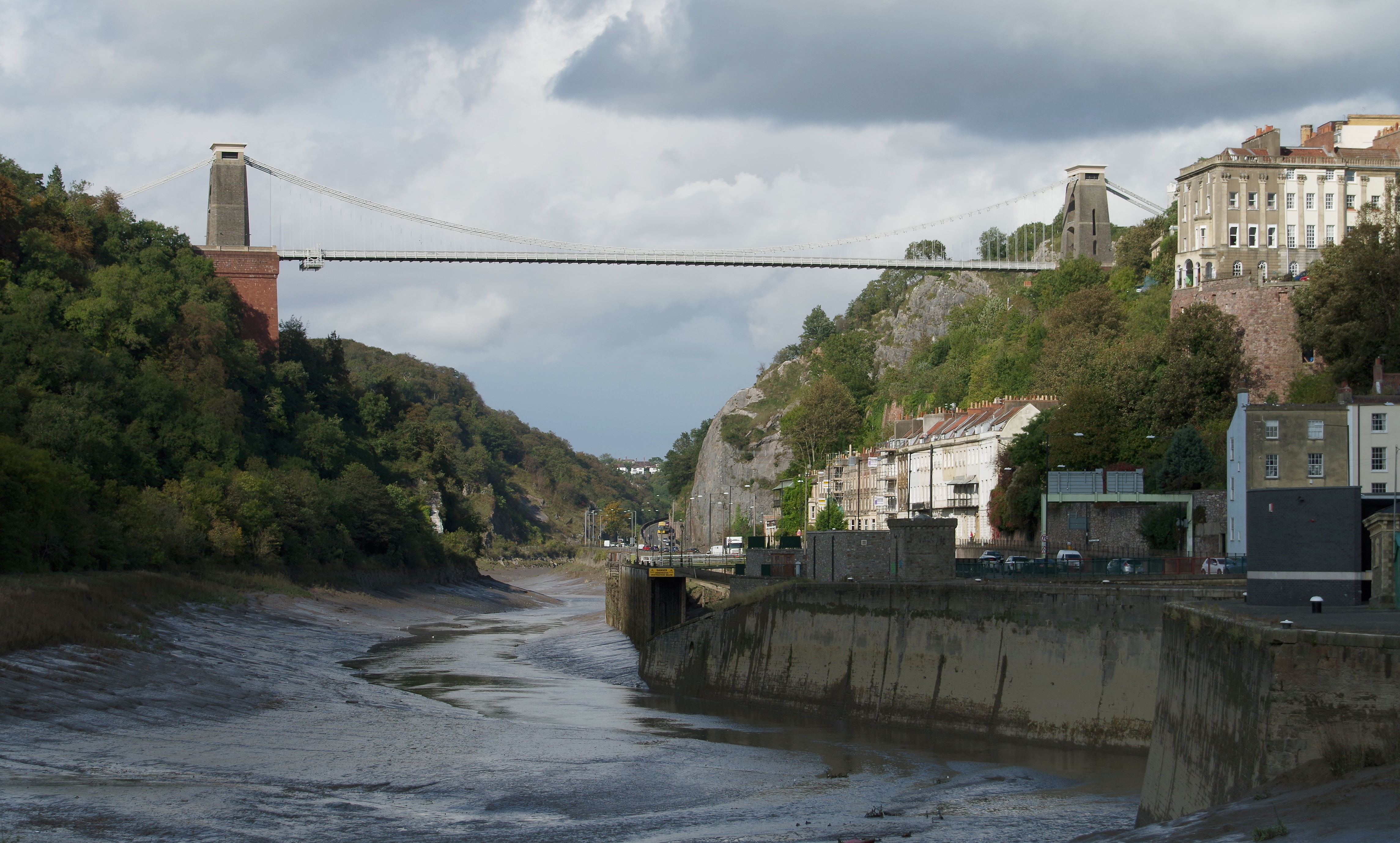 Looking over the River Avon from Cumberland Basin towards the Clifton Suspension Bridge.